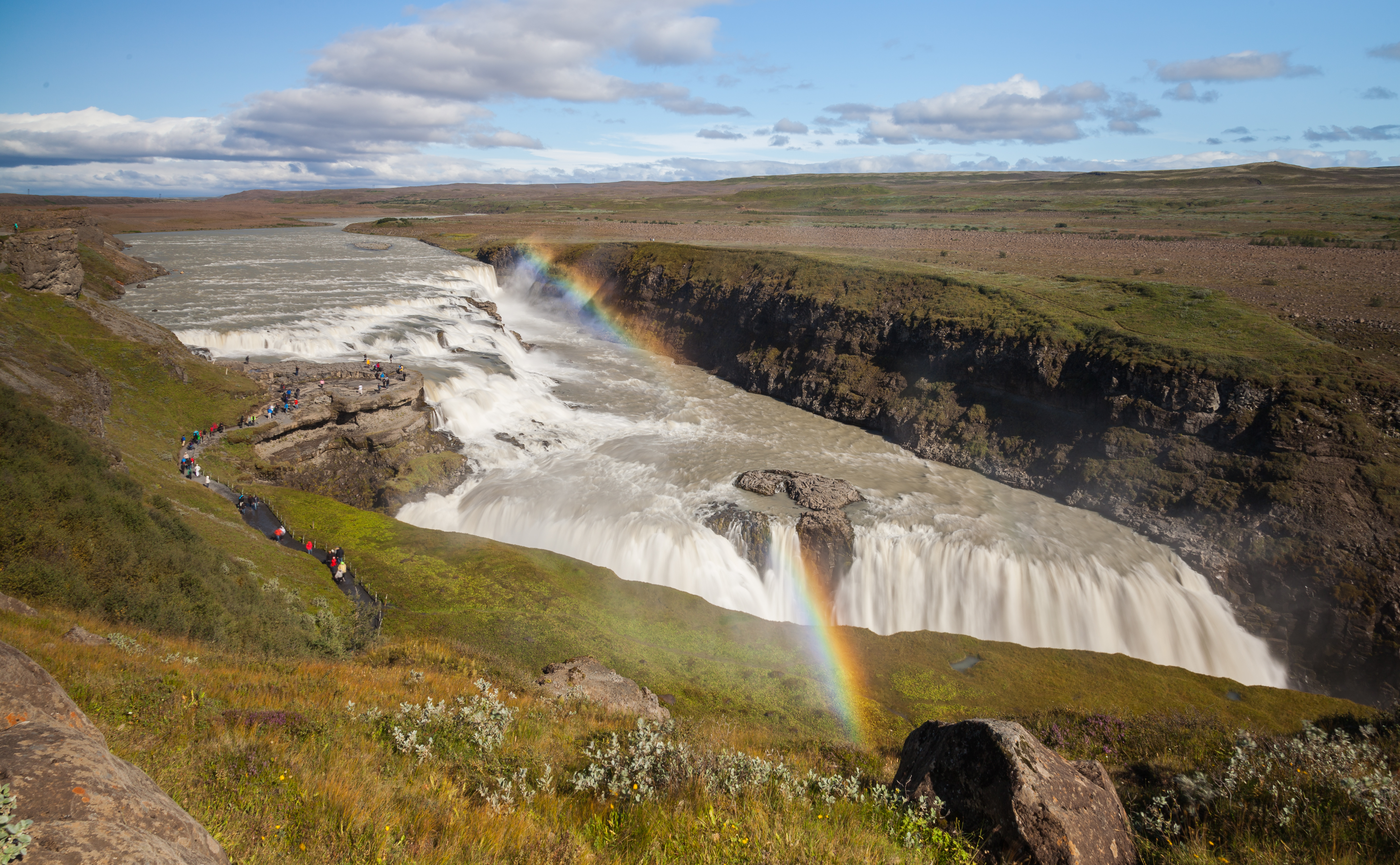 Rainbow over Gullfoss ("Golden Falls" in Icelandic), a waterfall located in the canyon of the Hvítá river and one of the main attractions of the Golden Circle in southwest of Iceland. The fall step on the left is 11 m high and the one on the right 20 m high. The amount of water flowing is in summer, when the picture was taken, 140 m3/s.